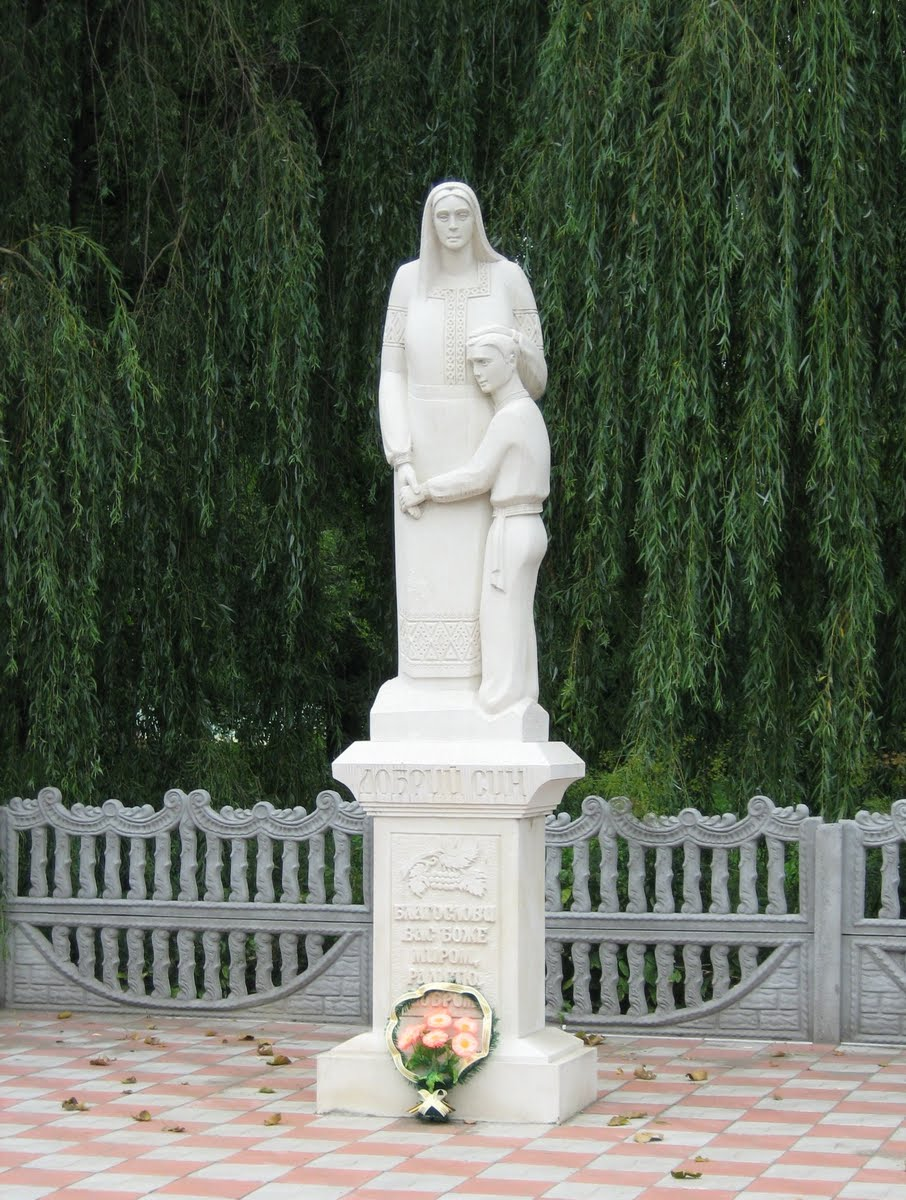 пам'ятник